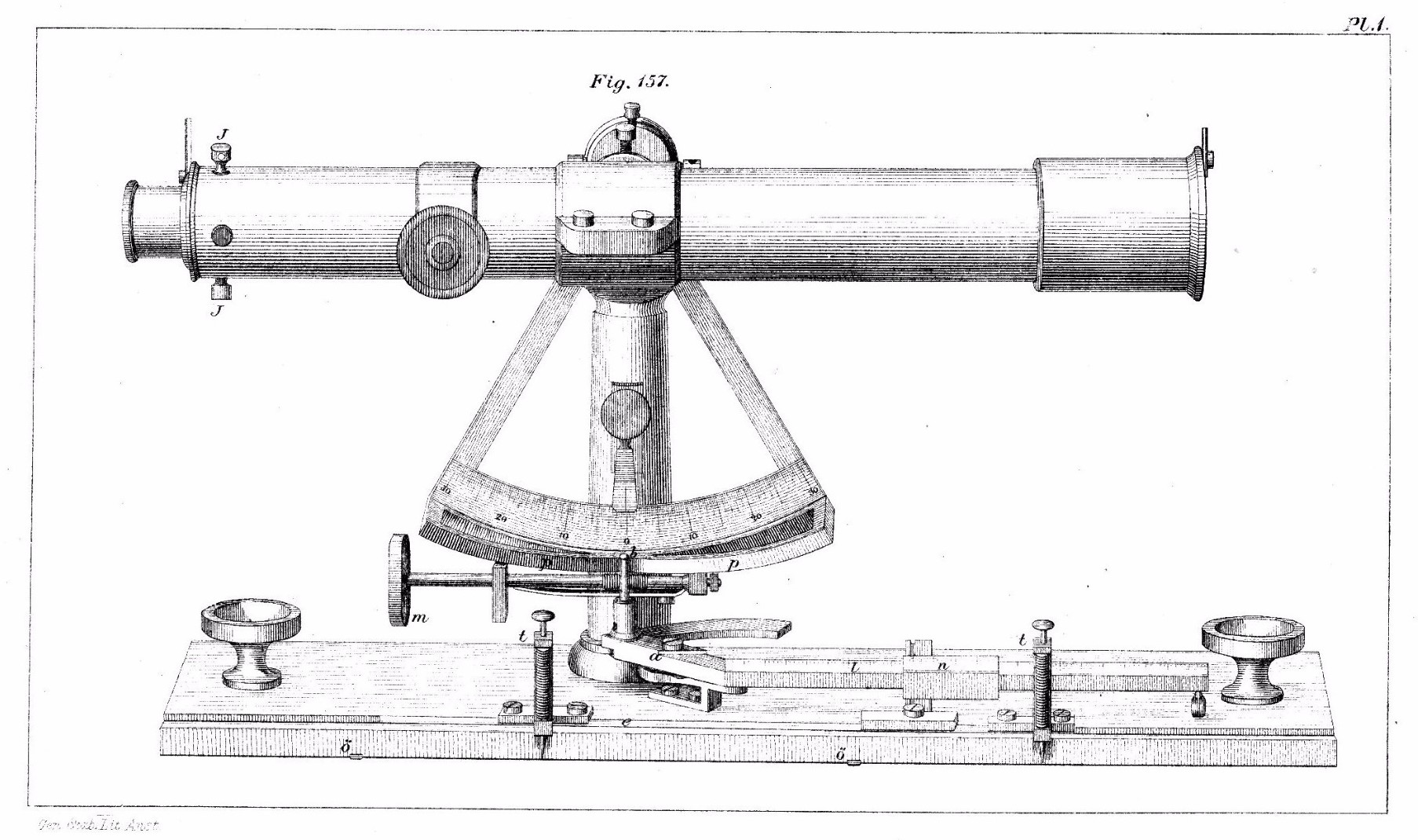 Jonas Patrik Ljungströms (1827-1898) distanstub för lantmäteri.